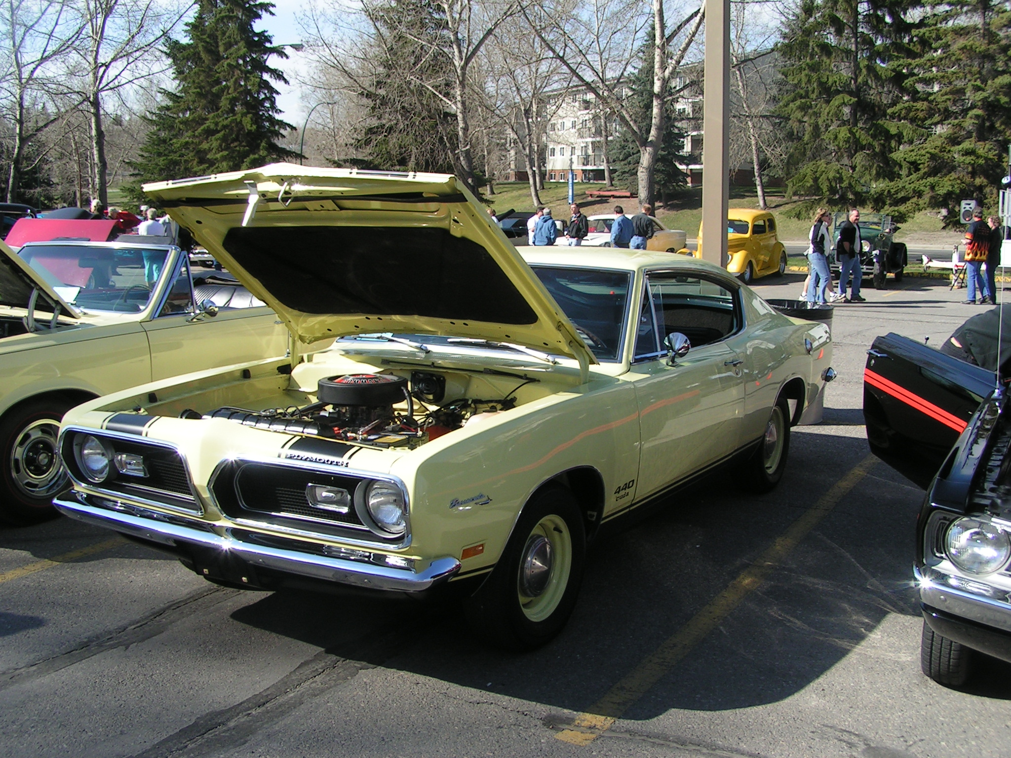 Plymouth Barracuda